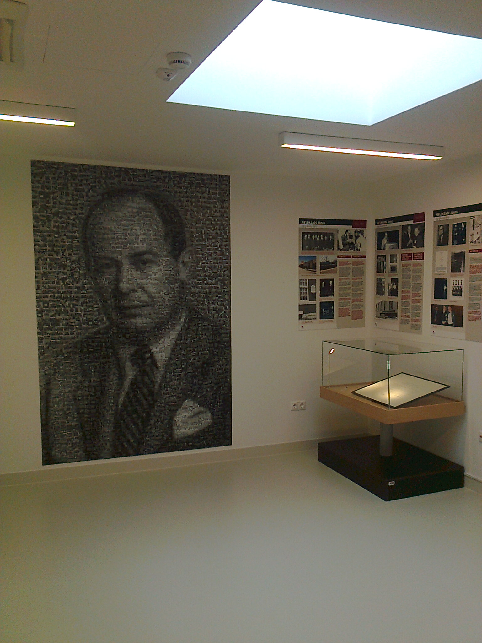 John von Neumann room in the Computer History Museum in Szeged